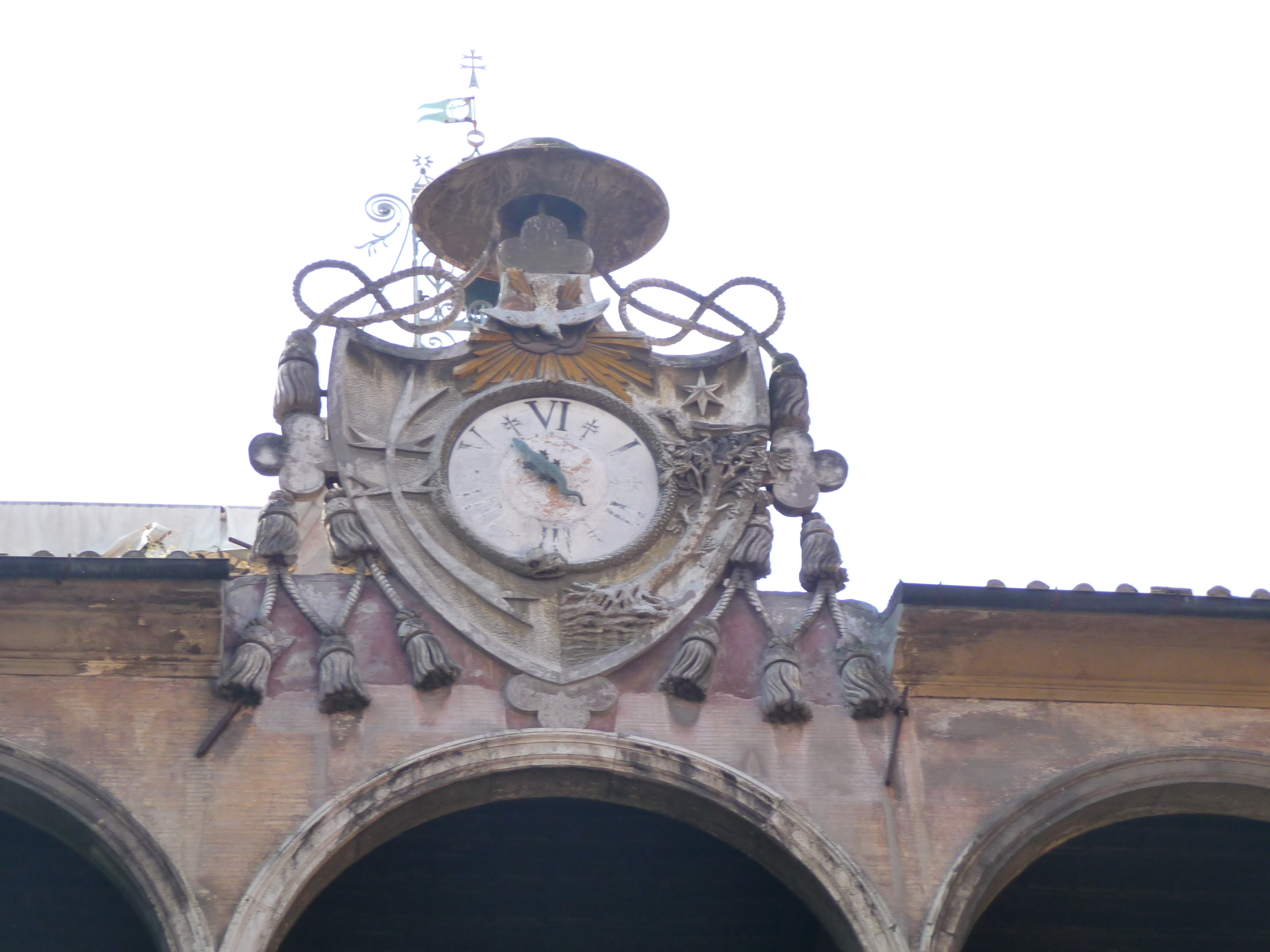 Orologio; Palazzo del Commendatore, Santo Spirito in Sassia (Rome)